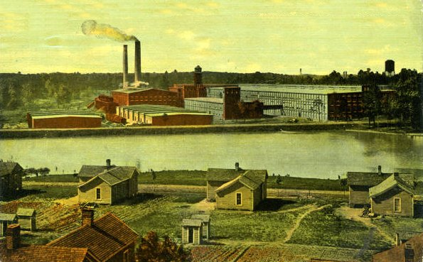 Division of Cone Mills with a mill village.